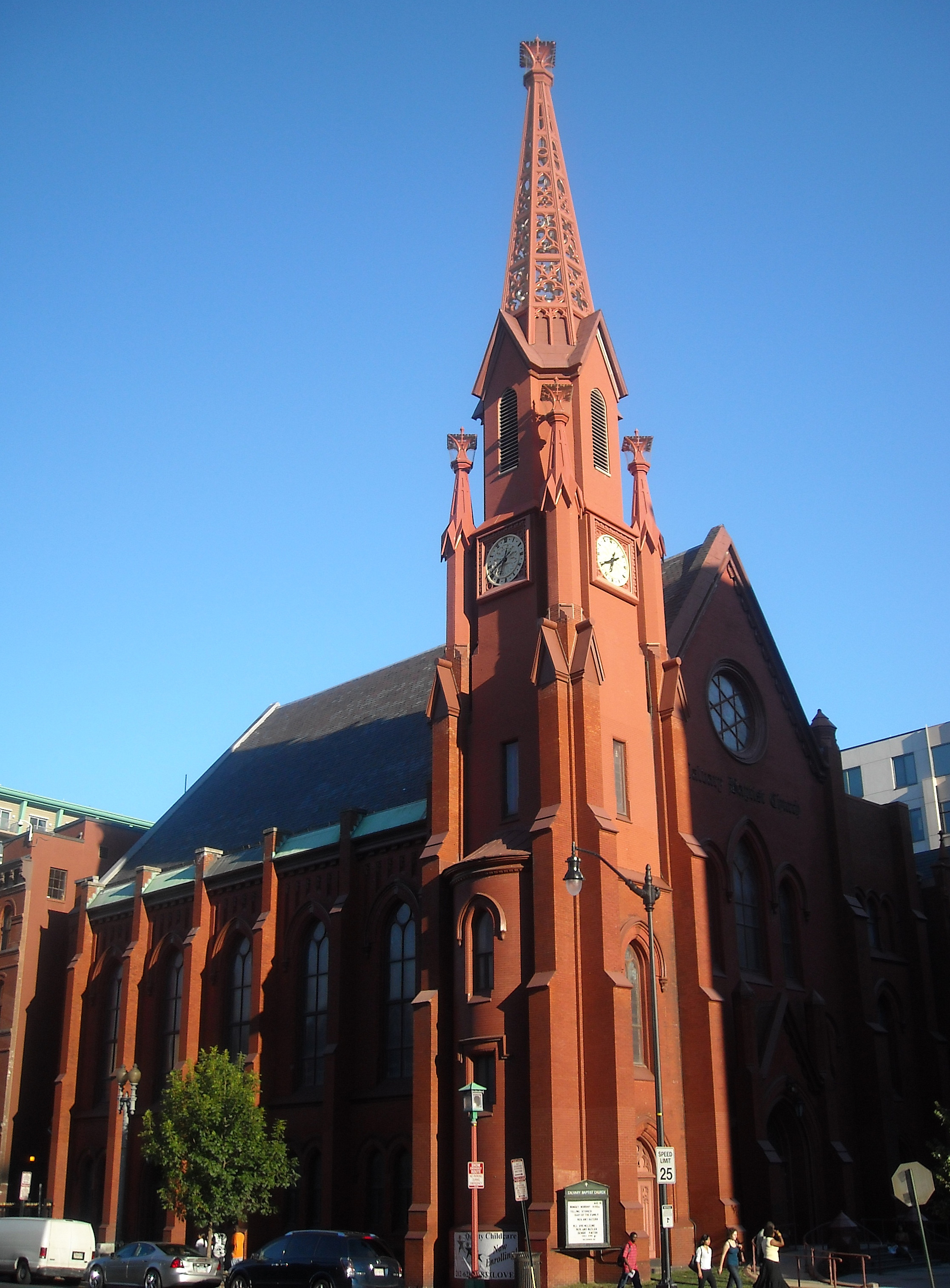 Calvary Baptist Church at 755 8th Street, NW in the Chinatown neighborhood of Washington, D.C.